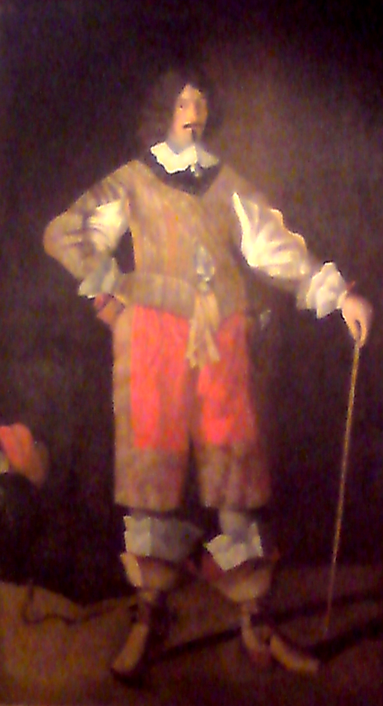 Stanislaw Oswiecim, potrait